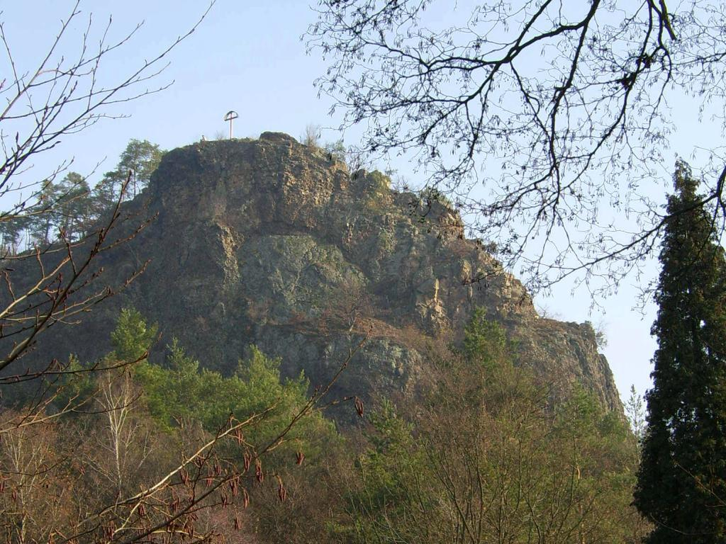 Nature Reserve Szabóova skala, Slovakia. The view of Szabóova skala top.